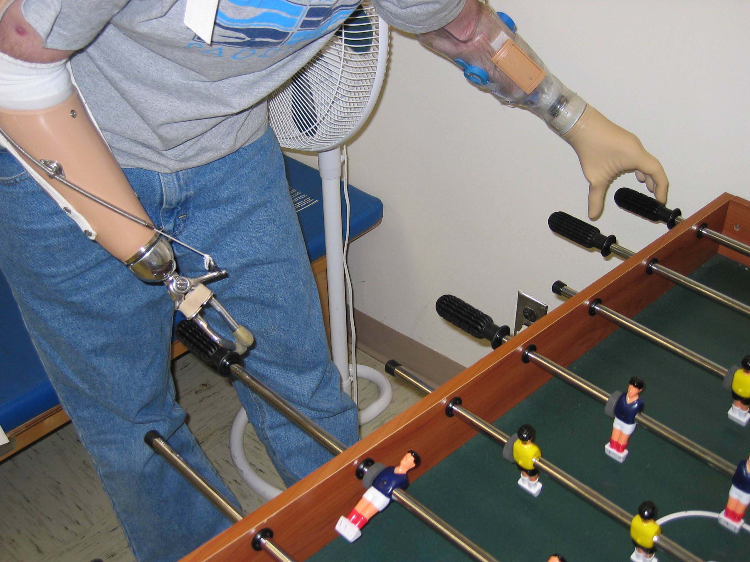 A soldier in the U.S. Army plays fooz-ball with two prosthetic limbs. Courtesy of the U.S. Army, by Walter Reed photographers. Photo Courtesy of U.S. Army